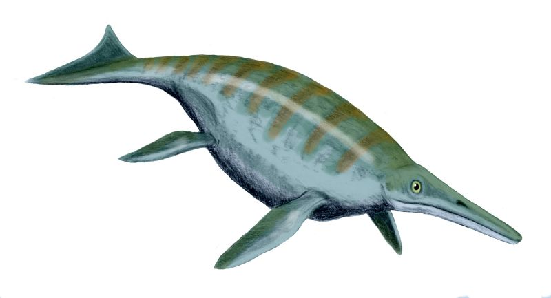 Shonisaurus popularis, an ichthyosaur from the Late Triassic of Nevada, pencil drawing. This image may be somewhat too "fat" for a correct representation, but User:Dinoguy2--who expressed this concern--still believes that it is a resaonable reconstruction.[1]